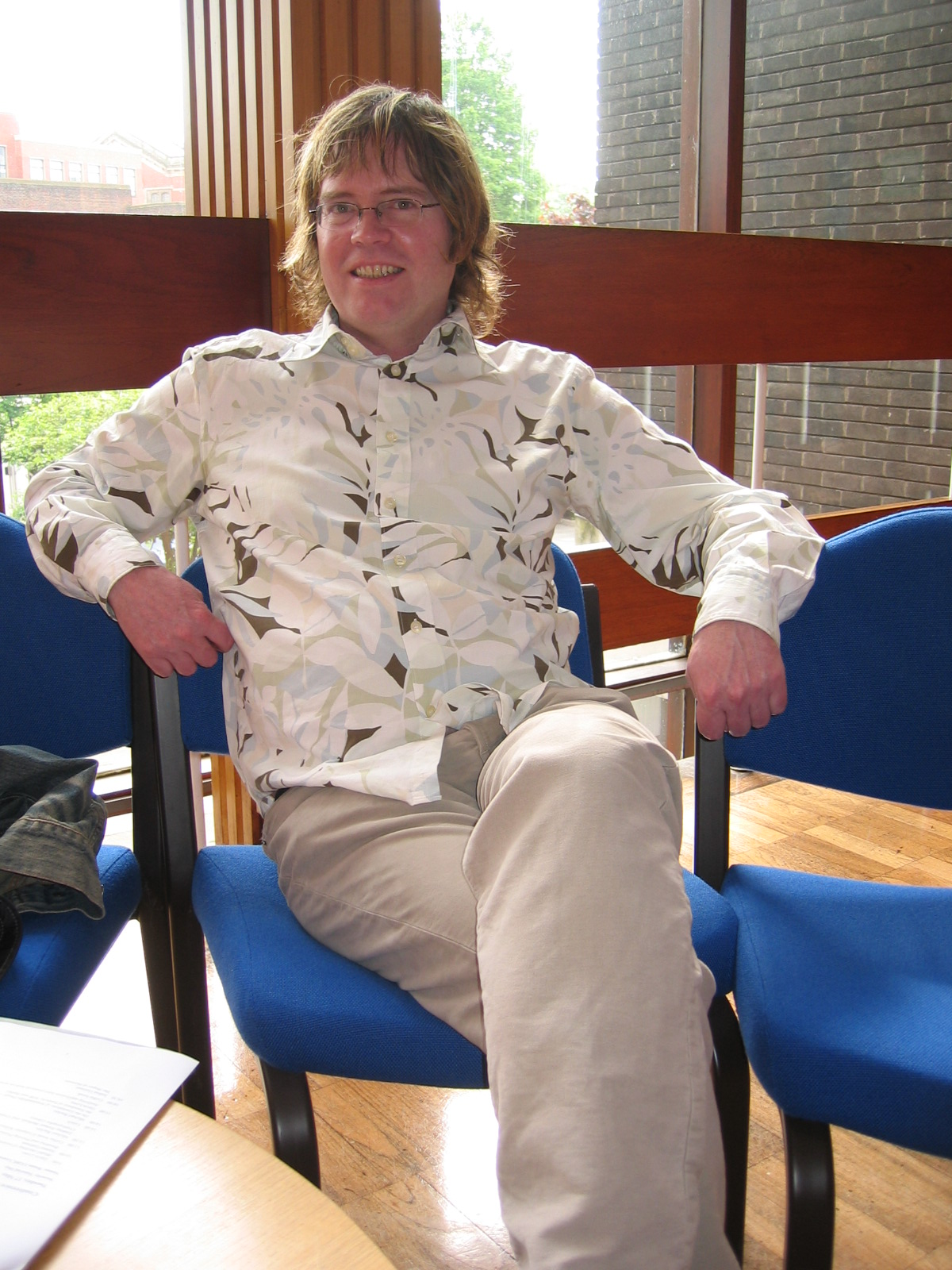 Peter O'Hearn, Mathematical Foundations of Programming Semantics, Birmingham, May 2005